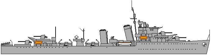 E Class Destroyer profile from part of a website that I ran.